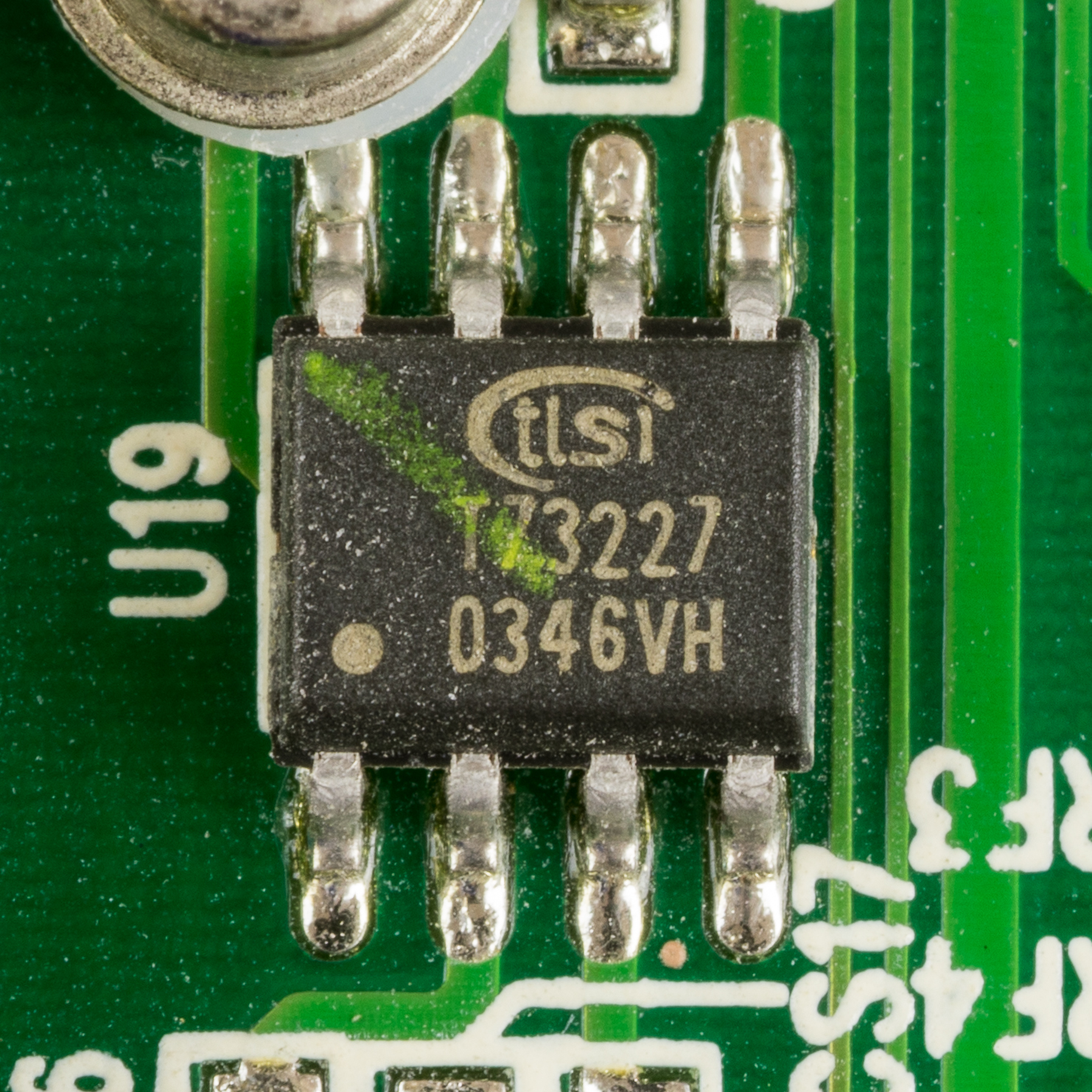 Skymaster DT 500 - TLSI T73227 - 27 MHz VCXO Clock Generator IC